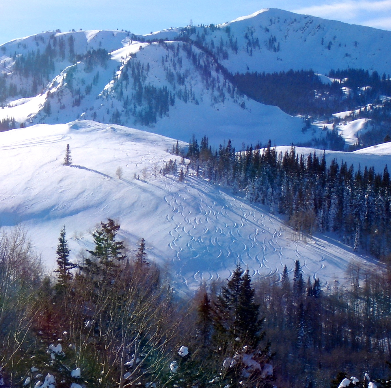 and the wiggles of snow snakes. =)